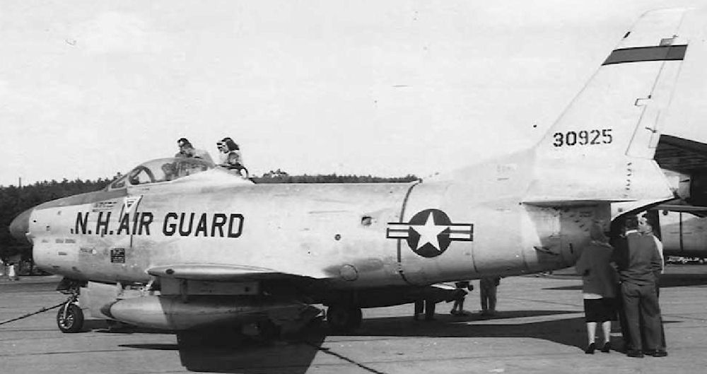 133d Fighter-Interceptor Squadron - North American F-86L-60-NA Sabre 53-0925